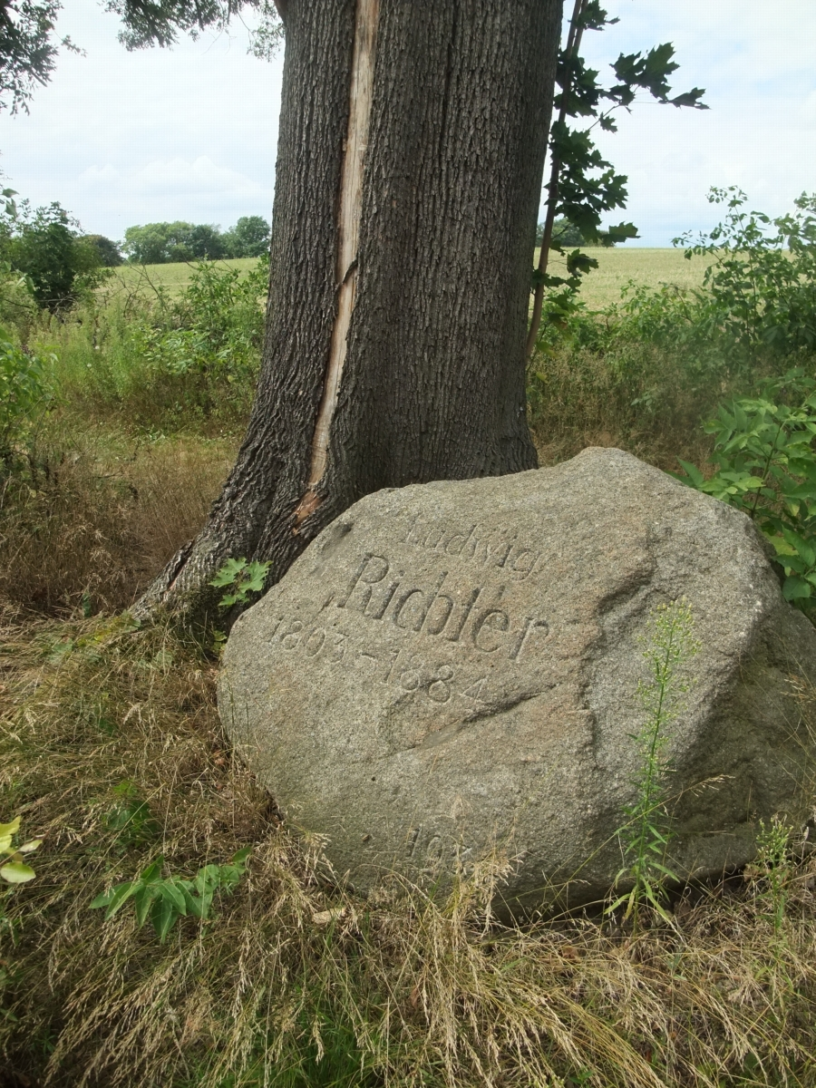 memorial for painter Ludwig Richter in Seifersdorf Valley, Saxony